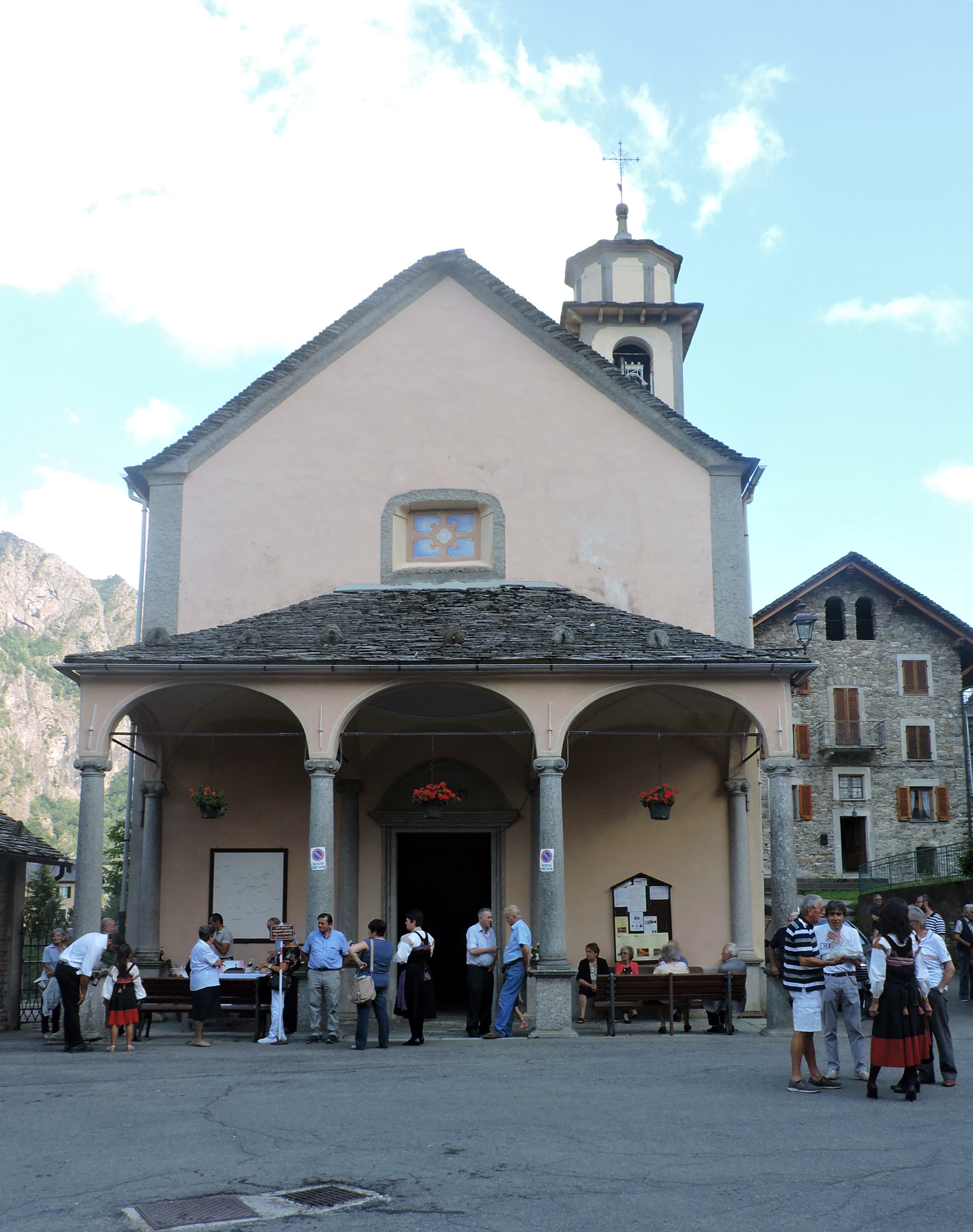 Cervatto (VC, Italy): parish church